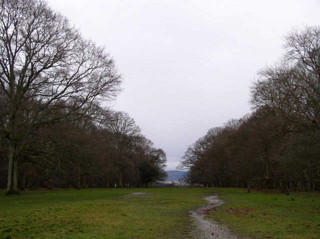 Oldtown Wood, Phoenix Park A gap in the trees of Oldtown Wood giving a glimpse of the "Fifteen Acres" and the Dublin Mountains beyond.